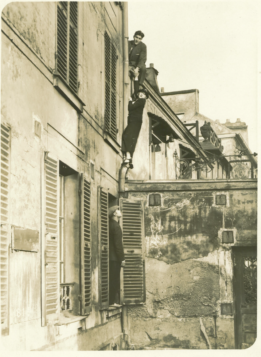 Still from the French film Terreur (English title: Terror) (1924) with Pearl White.